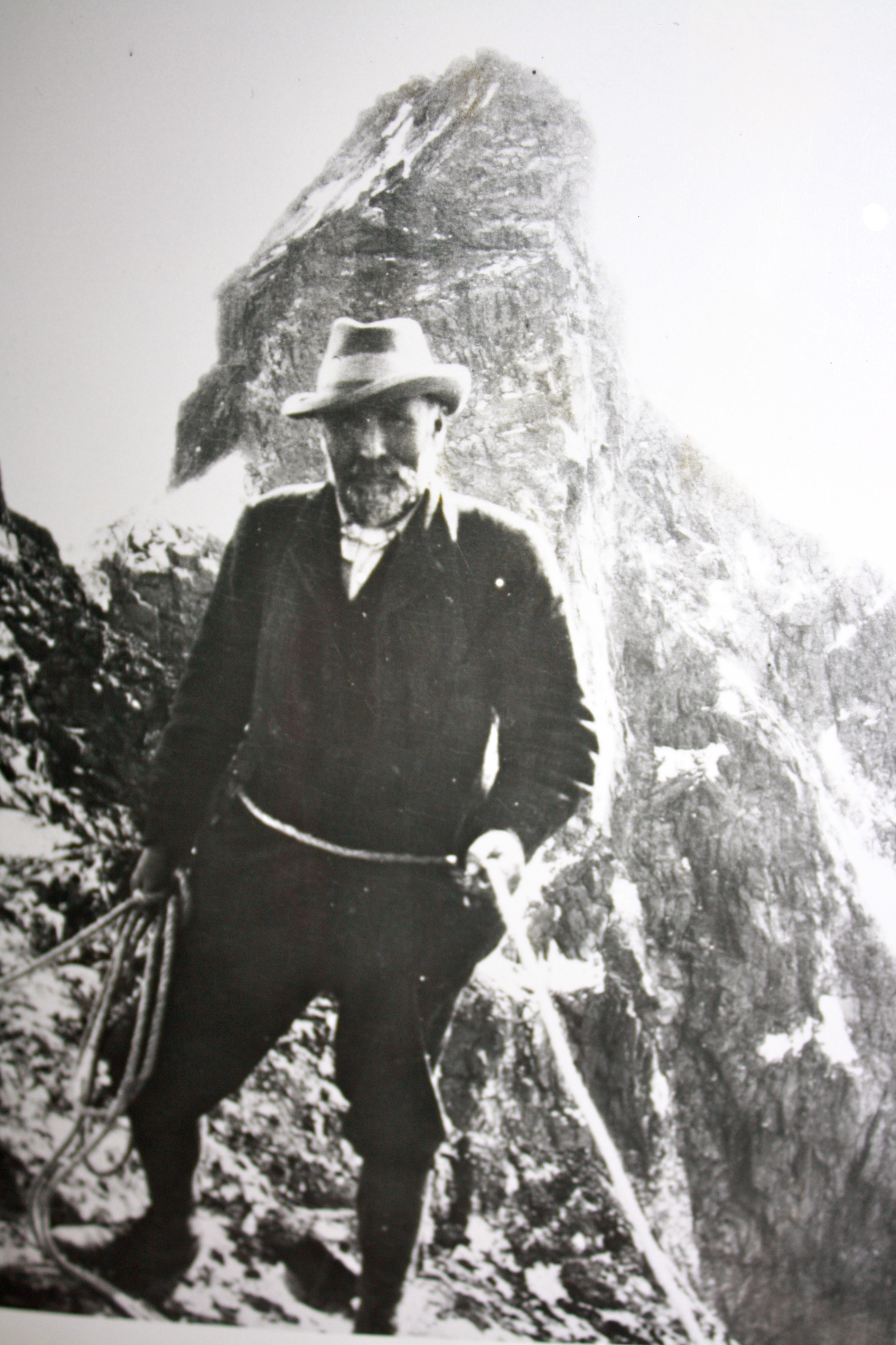 William Cecil Slingsby on Vesle Skagastølstind with Storen in the background